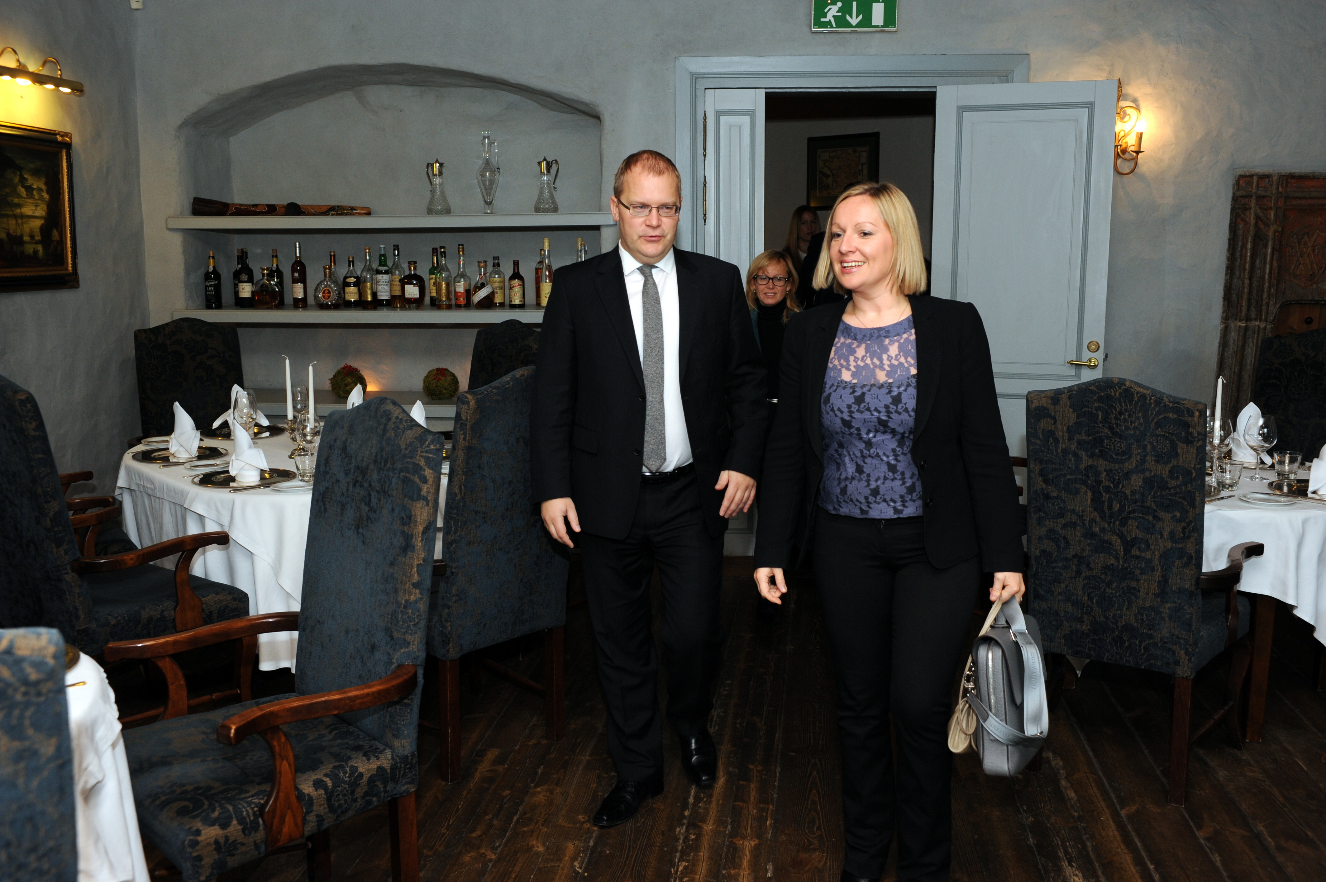 FM Urmas Paet met with Ireland's Minister of State for European Affairs Lucinda Creighton in Tallinn